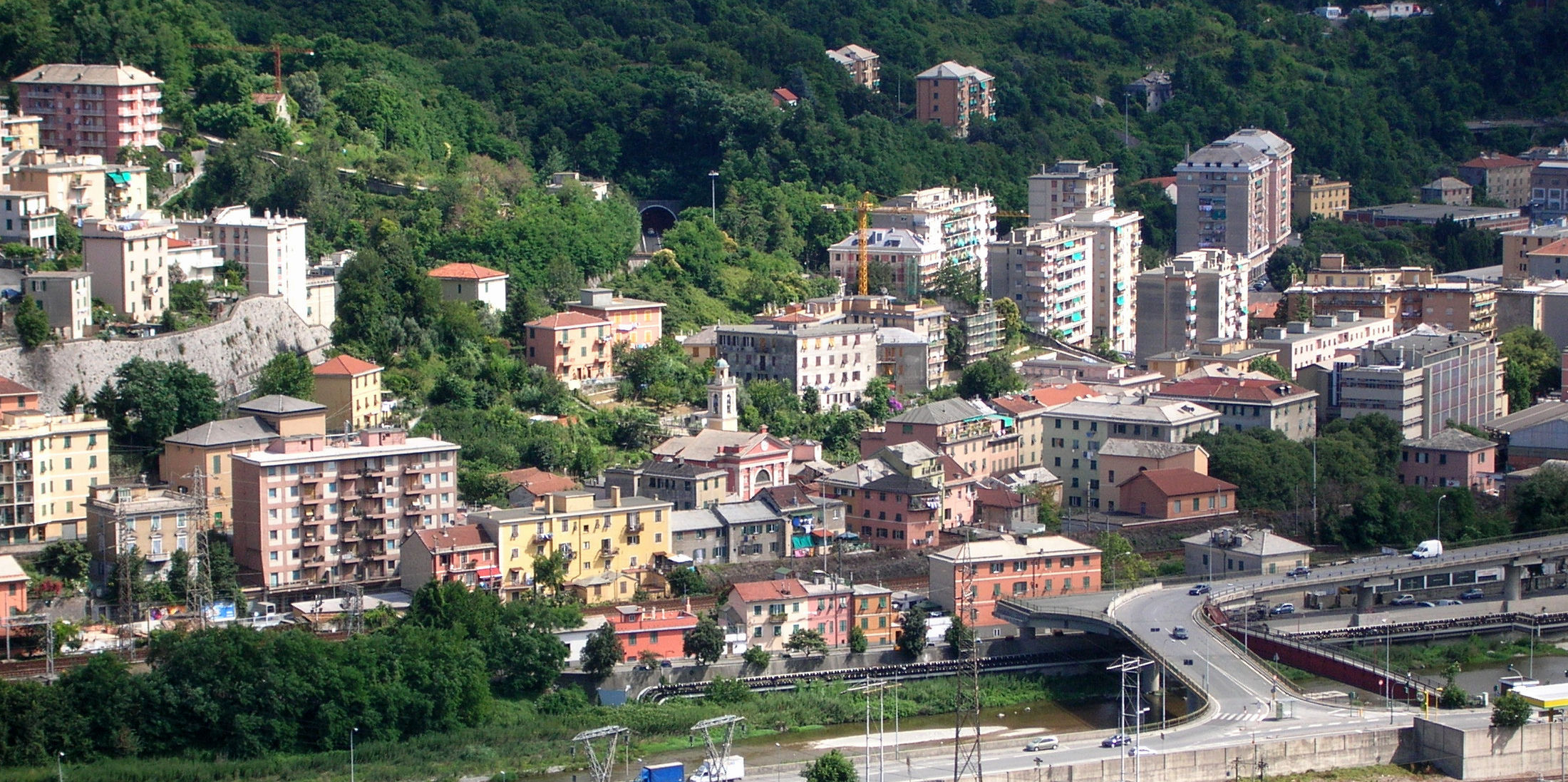 Genoa (Italy), quarter of Rivarolo, view of Teglia from Murta